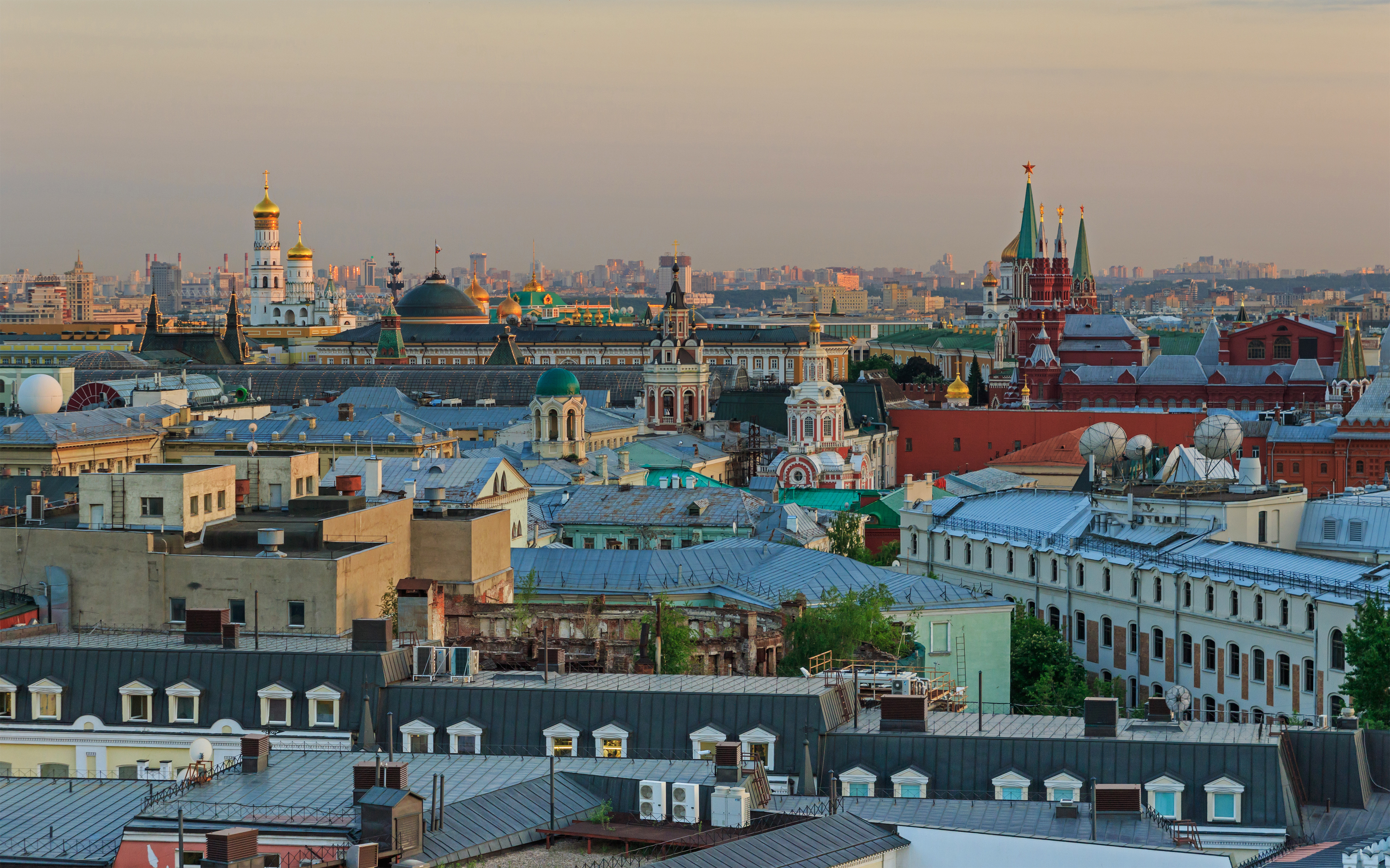 View from the Panoramic view point of the Central Children’s Store at Lubyanka Square in Moscow